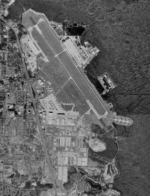 Robins AFB, GA 8 Feb 1999